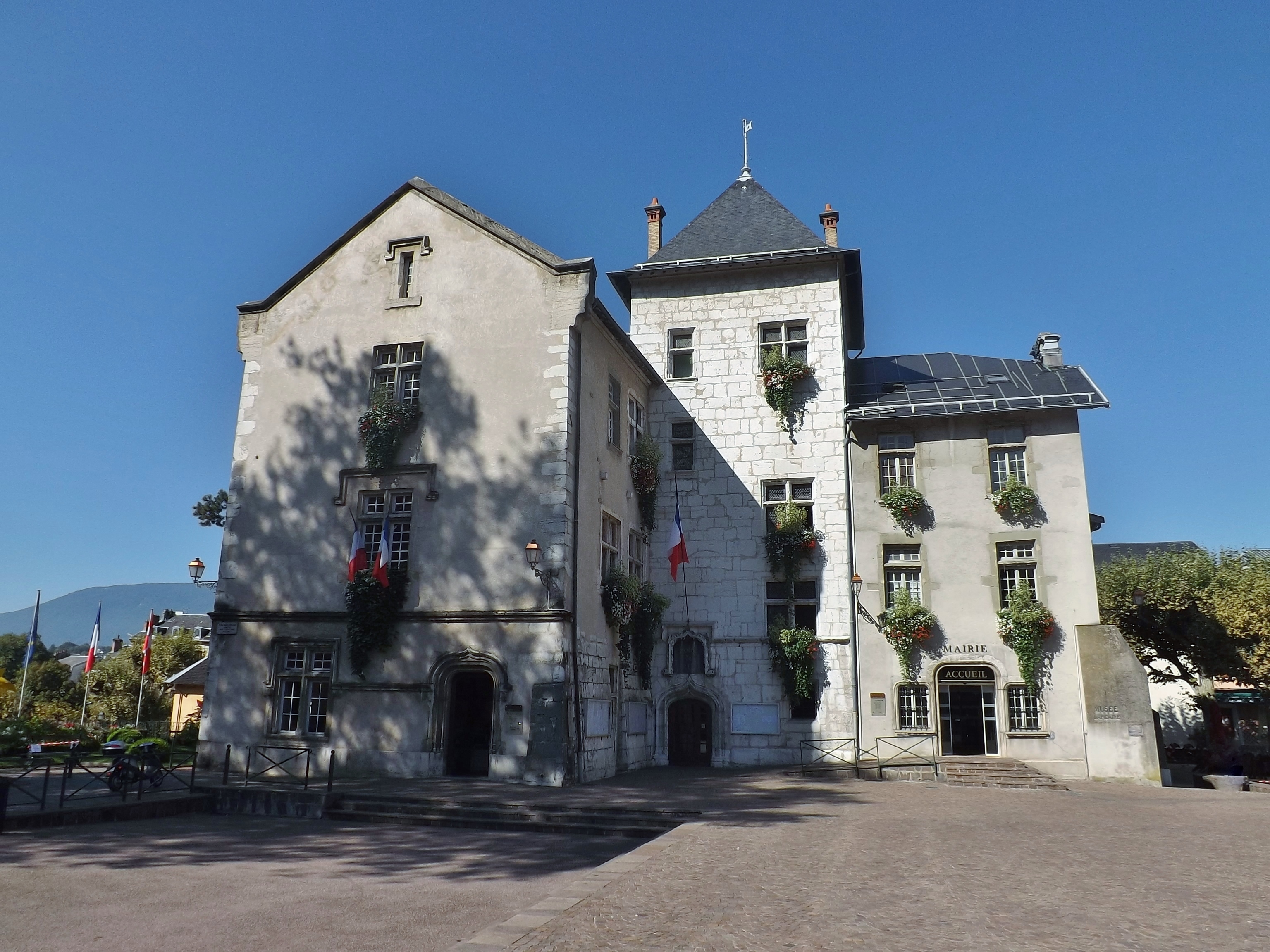 Sight of Aix-les-Bains city hall, in Savoie, France.